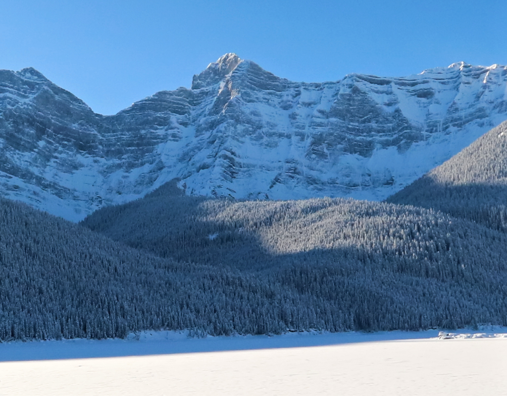 Mount Sarrail from Upper Kananaskis lake Alberta , Canada winter 2017